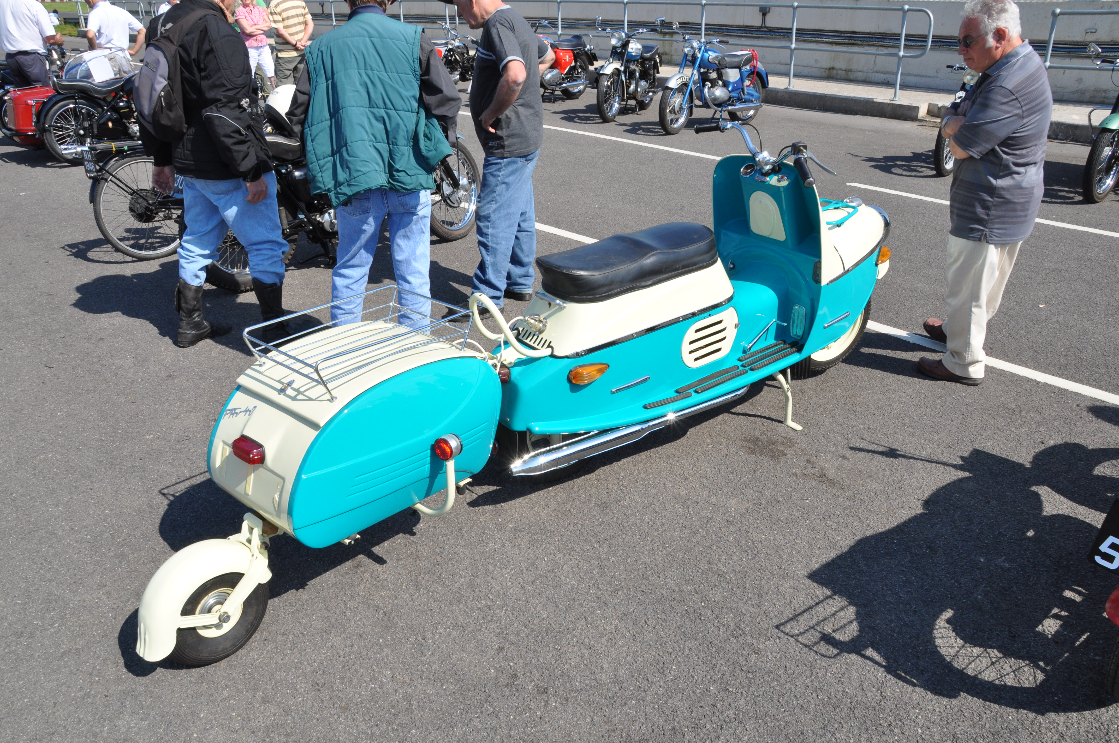 Motorbike(s) from a Classic Rally at Castle Combe